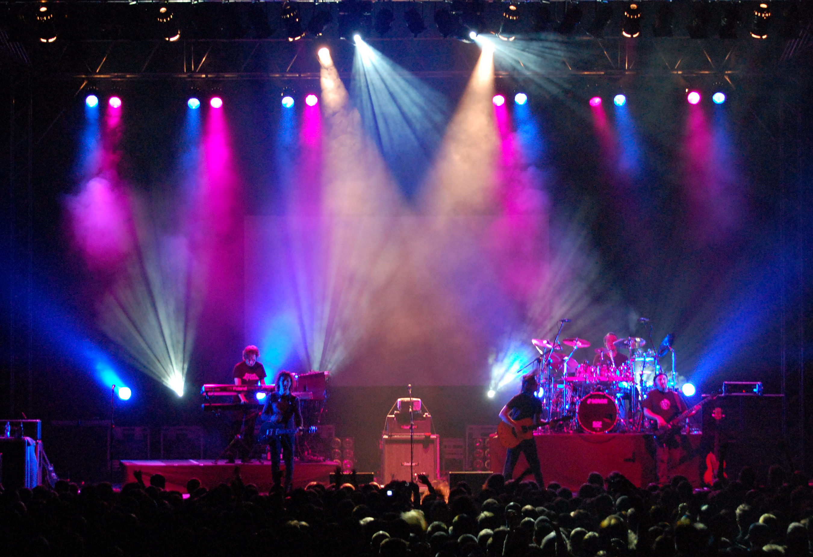 Porcupine Tree live at Arena, Poznan, Poland (November 28, 2007)